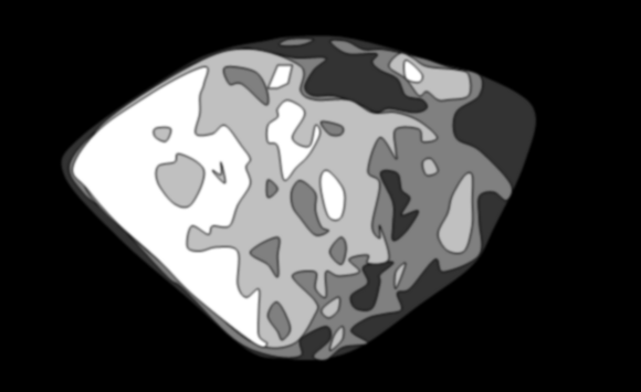 Asteroid en:2867 Šteins, (2867) Šteins. Artwork view of 2867 Šteins Asteroid as seen during the flyby of the Rosetta space probe.